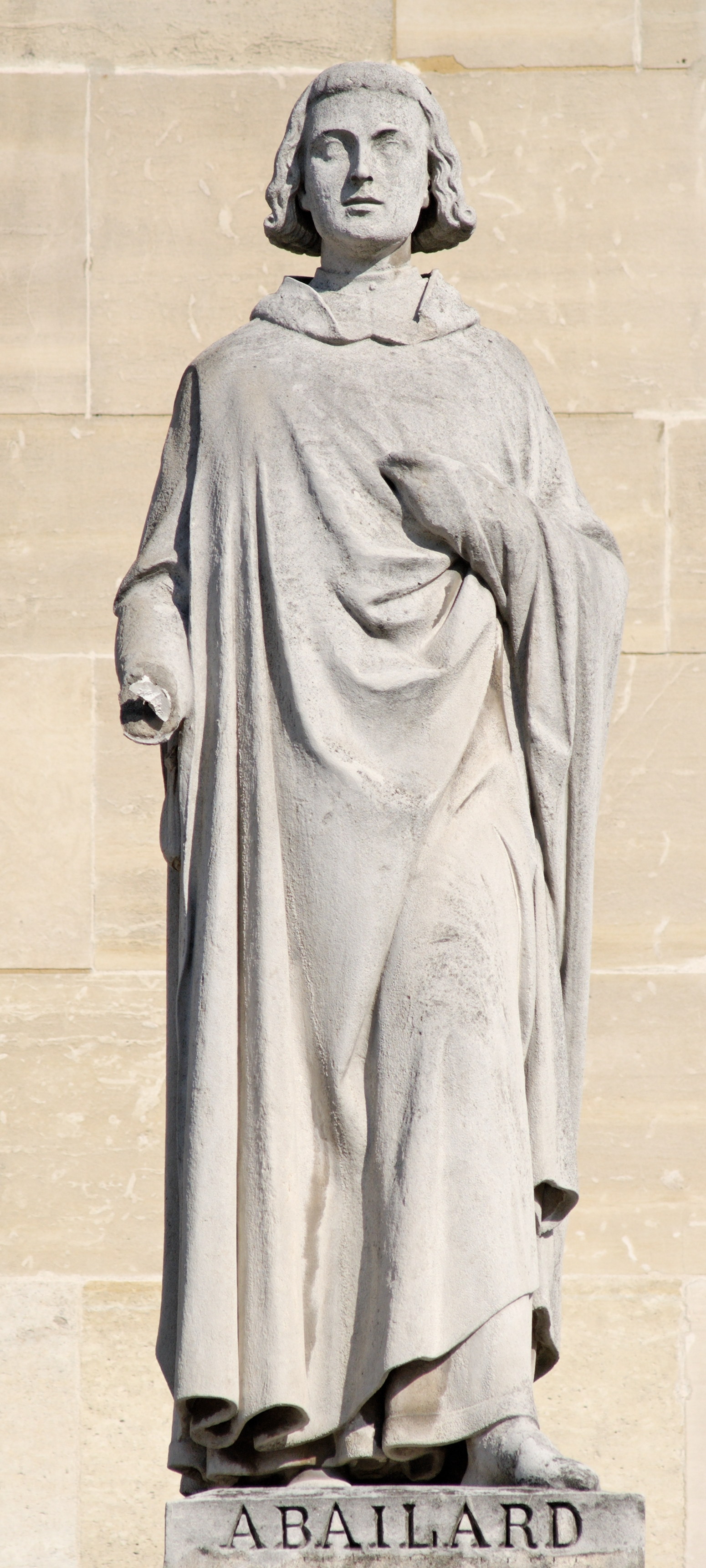 Abélard by Jules Cavelier. Stone, before 1853. 4th statue from Pavillon Turgot to Pavillon Richelieu, Cour Napoléon in the Louvre.